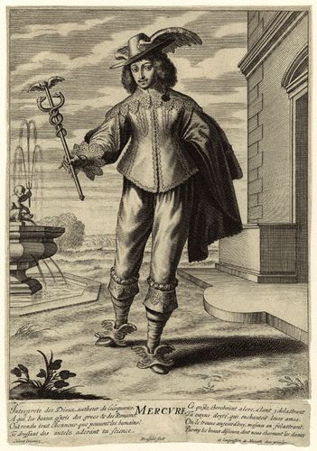 Prince Maurice von Simmern (1620-1652)